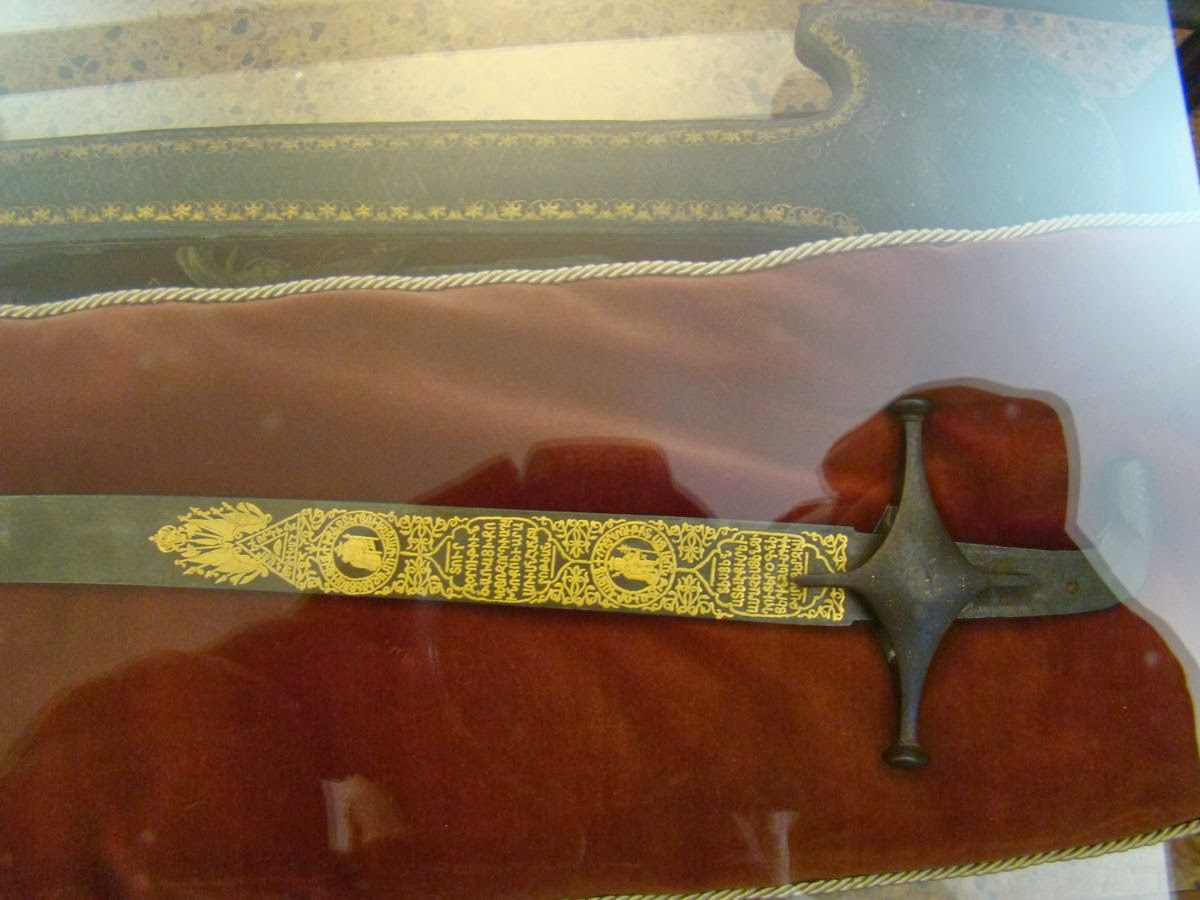 The sword of Leon 5th (the last armenian king of Cilicia)